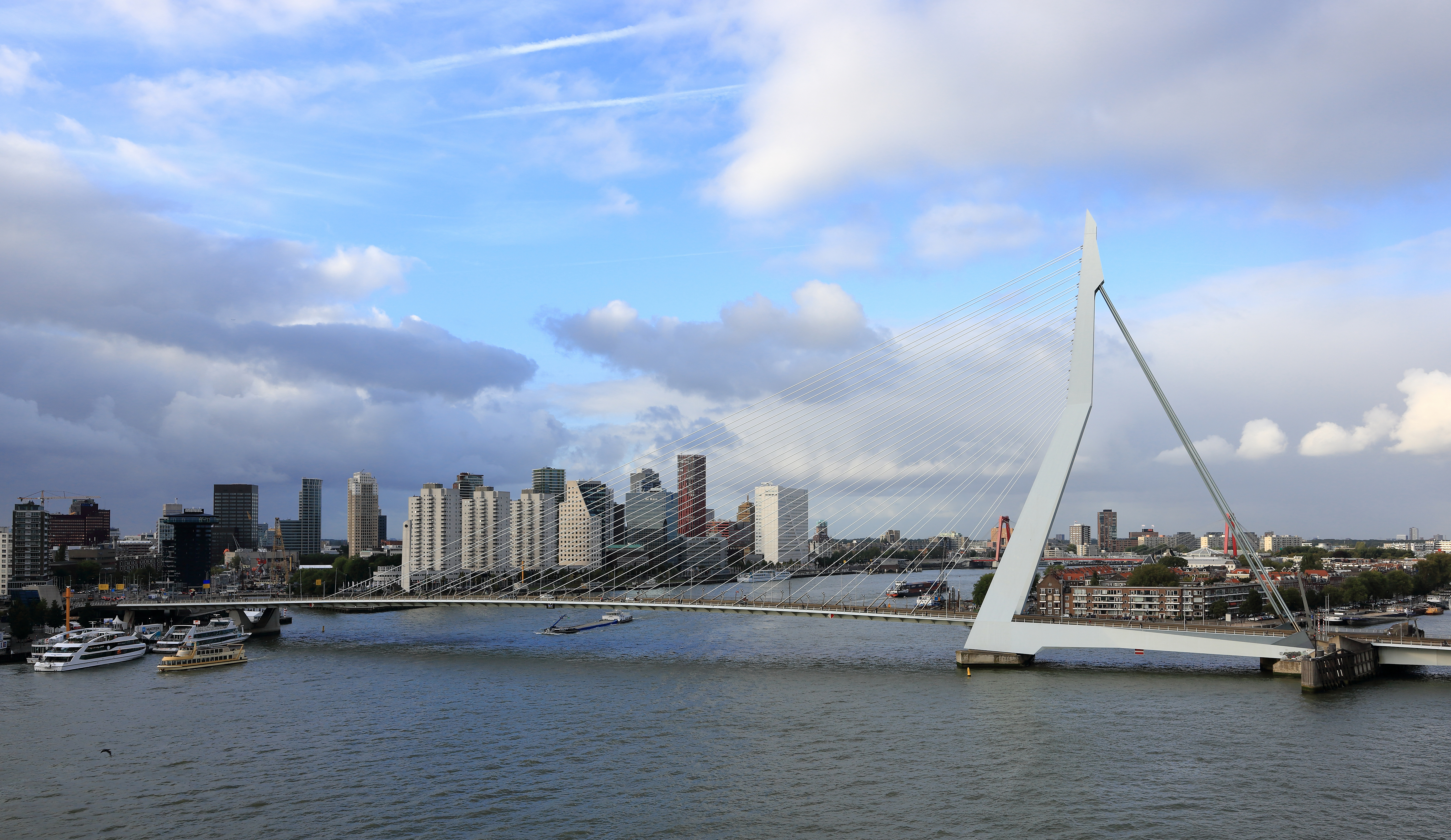 Erasmusbrug (